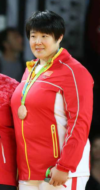 Medallists in female judo of +78 kg at the 2016 Summer Olympic Games. Emilie Andeol, France - gold. Idalys Orti, Cuba - silver. The Chinese woman of Song Yu and the Japanese of Kanae Yamabe - bronze.